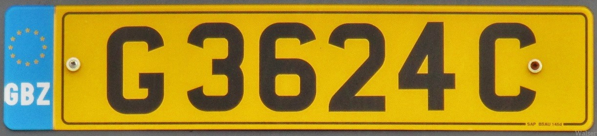 Gibraltar license plate, seen in Vaduz, Liechtenstein